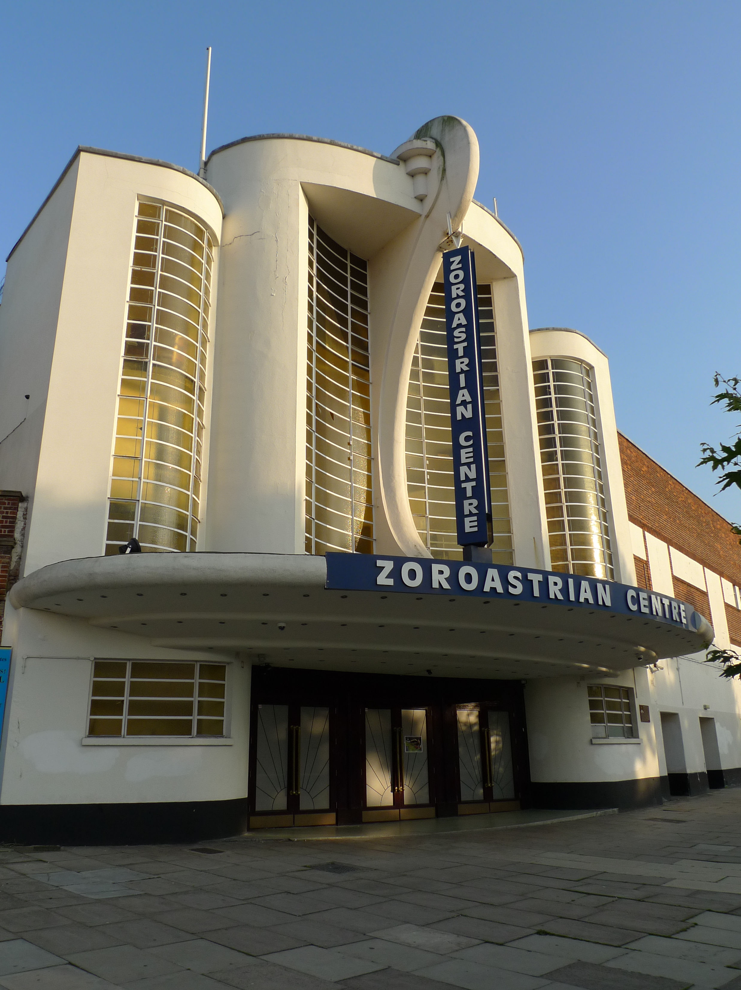 Ace Cinema